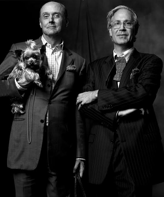 Scott Salvator & Michael Zabriskie with their teacup yorkie Butch